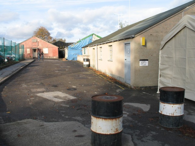 "Huts 3, 6 & 1", Bletchley Park Originally the home of the financier and Liberal MP, Sir Herbert Samuel Leon (1850-1926), the Bletchley Park estate passed out of the Leon family in 1937. During World War II the estate became the site of the UK's main decryption effort, becoming known as Station X. It was here that the codes and ciphers of several Axis countries were decrypted, most important being the ciphers generated by the German Enigma and Lorenz machines. Some 9,000 people were working at Bletchley Park at the height of the codebreaking efforts, many of the teams being housed in temporary huts designated by numbers - Hut 6 (partly shrouded by a tarpaulin) housed the team tasked with the breaking into German Army and Air Force Enigma enciphered wireless traffic. The adjacent Hut 3 (painted pink) handled the translation and intelligence analysis of the raw decrypts provided by Hut 6. See also . . . . 1592914; 1592920; 1593071; 1592862; 1592868; 1592873